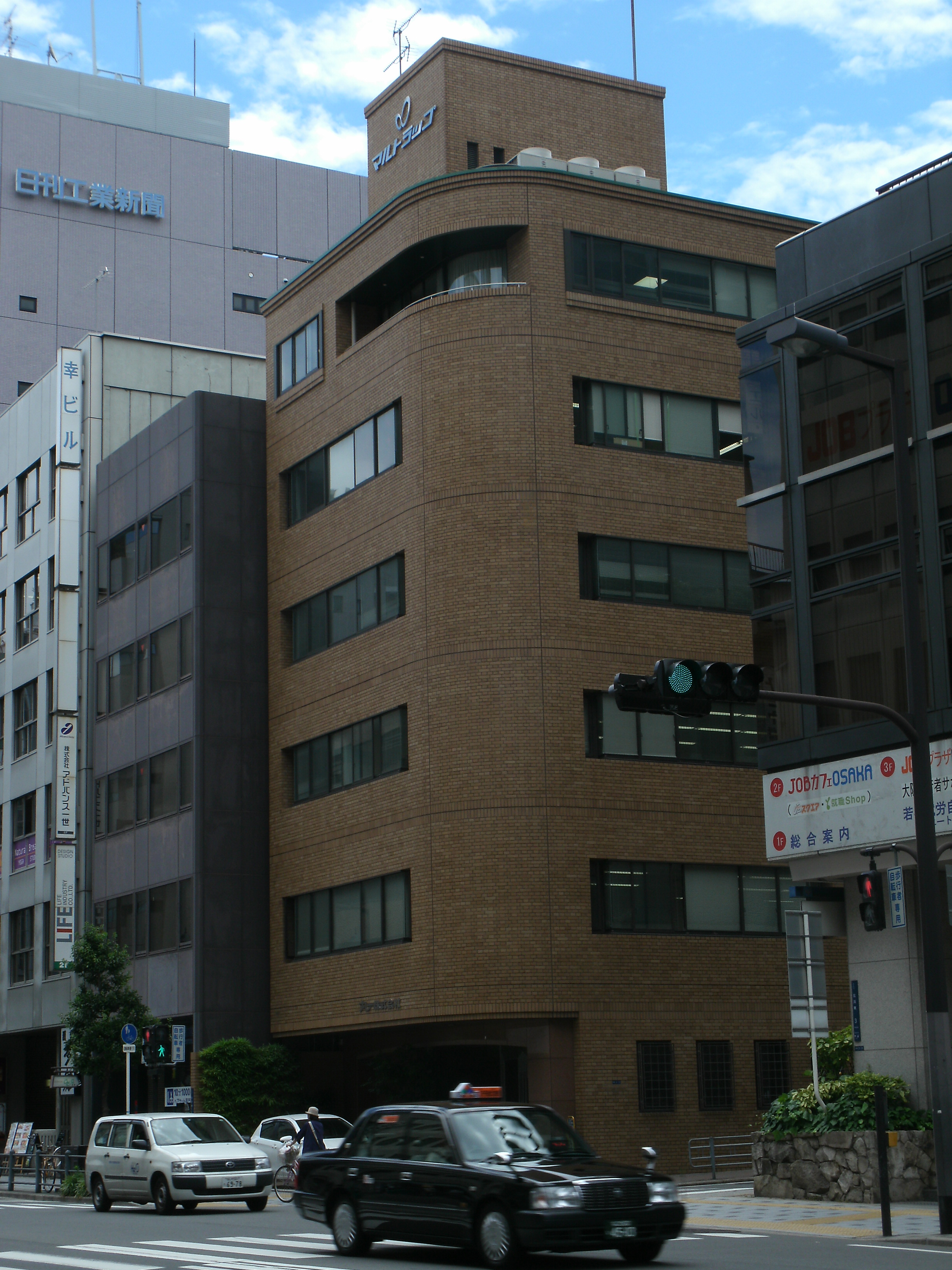 Maruichi